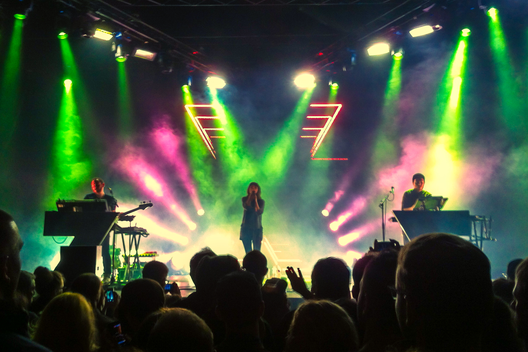 Chvrches live at Columbiahalle (2014)